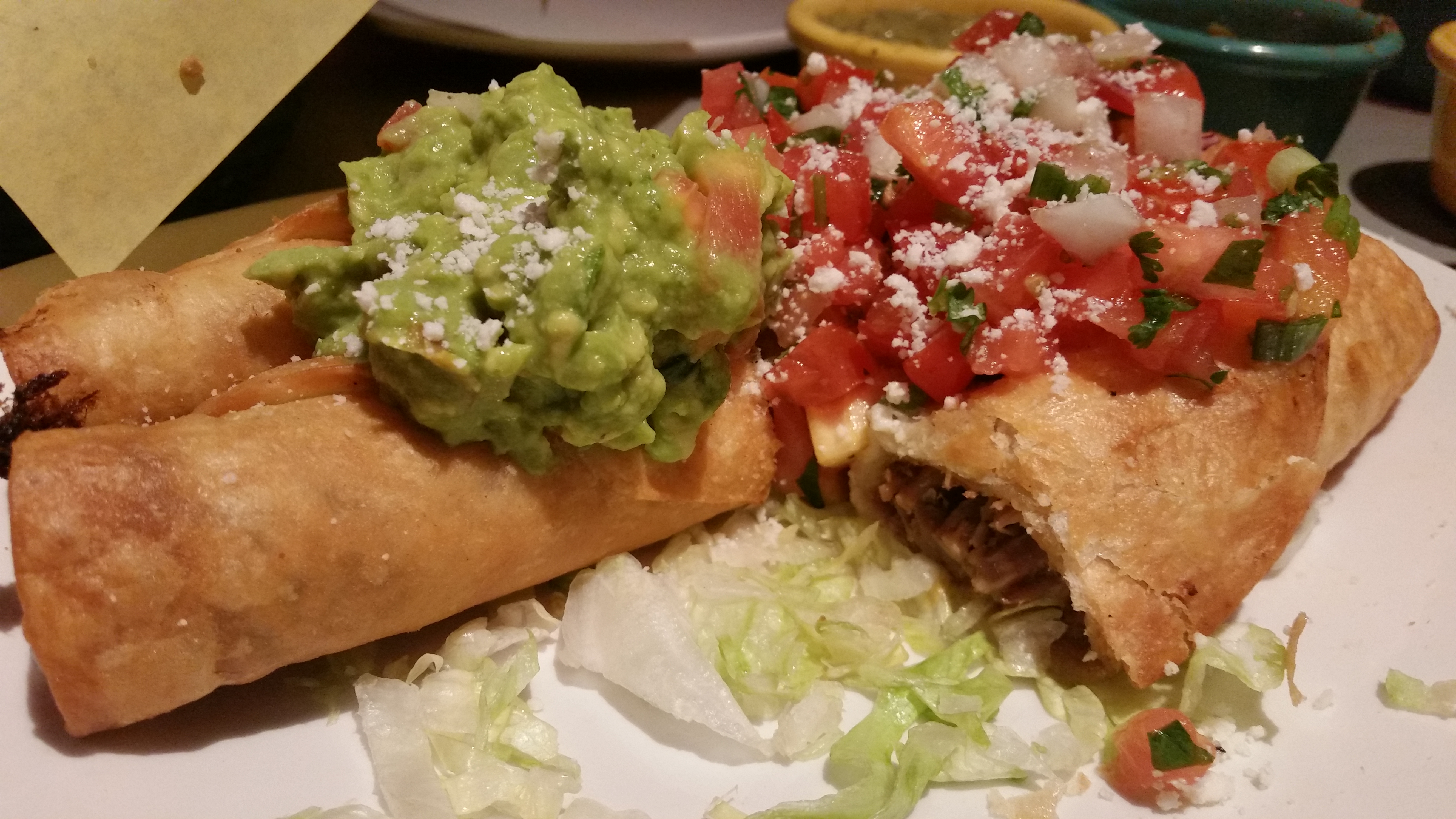 Carnitas flautas served at Miguel's Cocina in Eastlake Chula Vista.